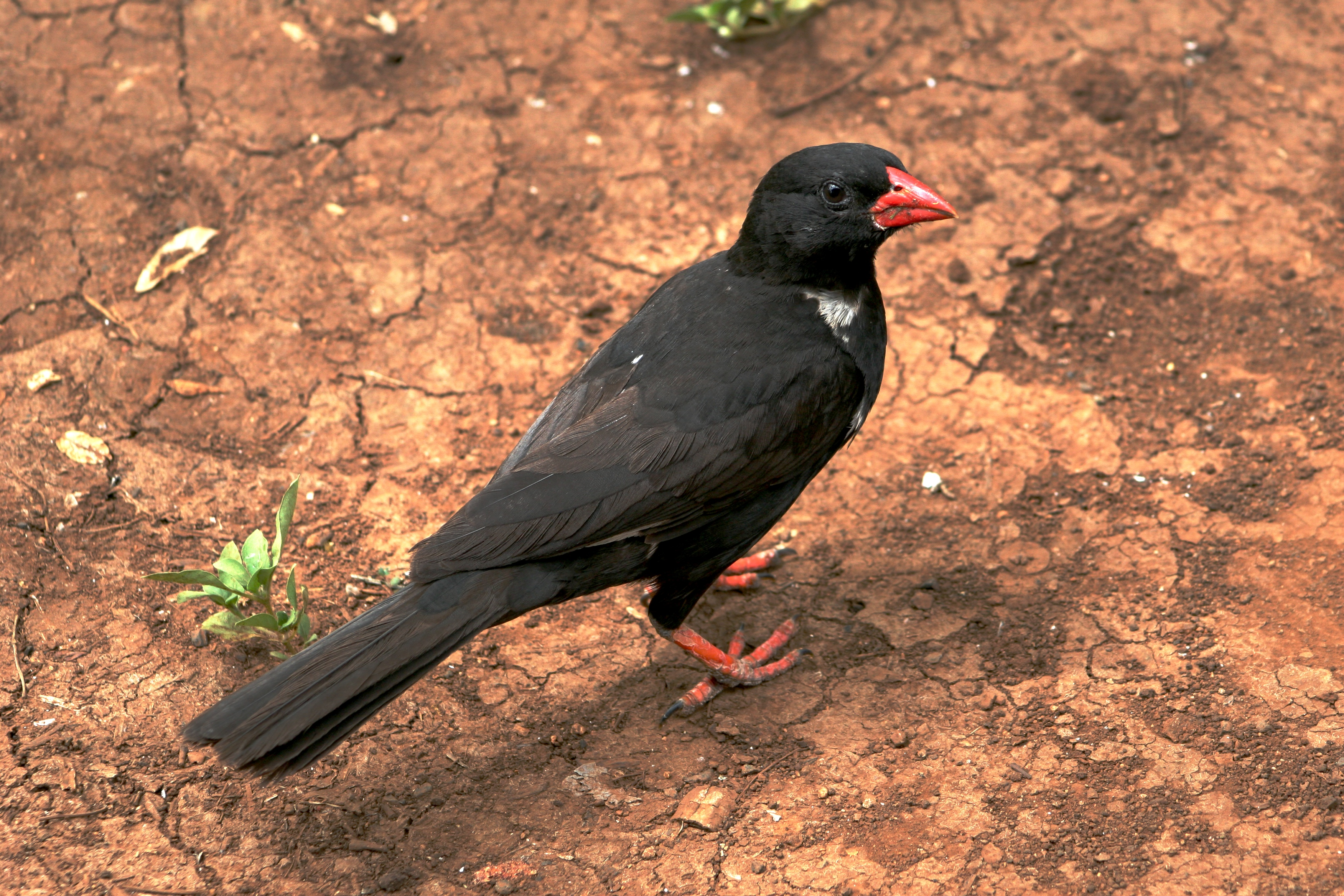 Love the South African soil